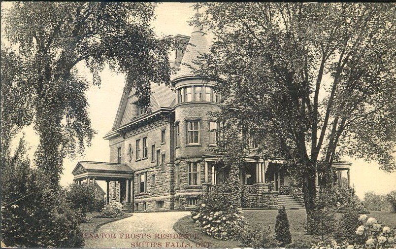 Photograph of Canadian house Elmcroft This Canadian work is in the public domain in Canada because its copyright has expired due to one of the following: 1. it was subject to Crown copyright and was first published more than 50 years ago, or it was not subject to Crown copyright, and 2. it is a photograph that was created prior to January 1, 1949, or 3. the creator died more than 50 years ago. This work is in the public domain in the United States because it was published (or registered with the U.S. Copyright Office) before January 1, 1923. Public domain works must be out of copyright in both the United States and in the source country of the work in order to be hosted on the Commons. If the work is not a U.S. work, the file must have an additional copyright tag indicating the copyright status in the source country.